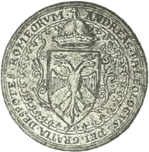 Seal of Andreas Palaiologos in the Western heraldic style, with a double-headed eagle on an escutcheon and the Latin inscription "Andreas Palaiologos, by the Grace of God, Despot of the Romans".